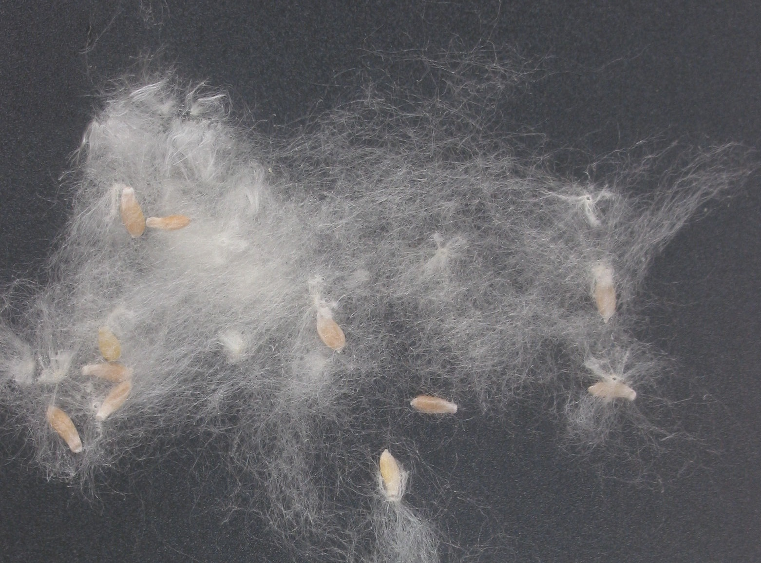 Seedhairs and seeds of Populus